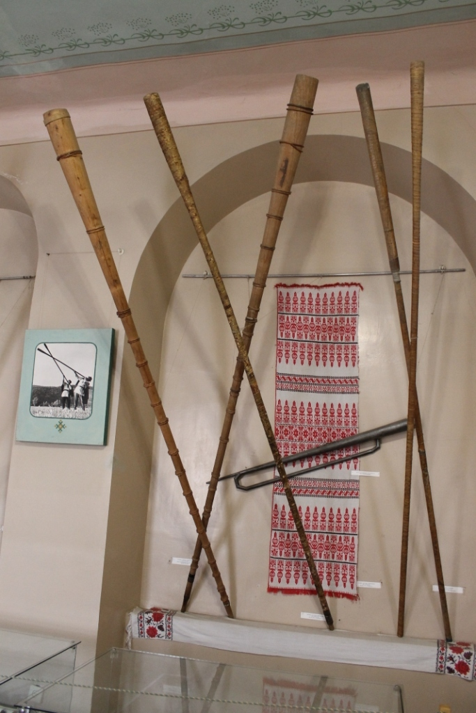 Trembity (Trembita), Museum of Folk Musical Instruments in Uzhgorod